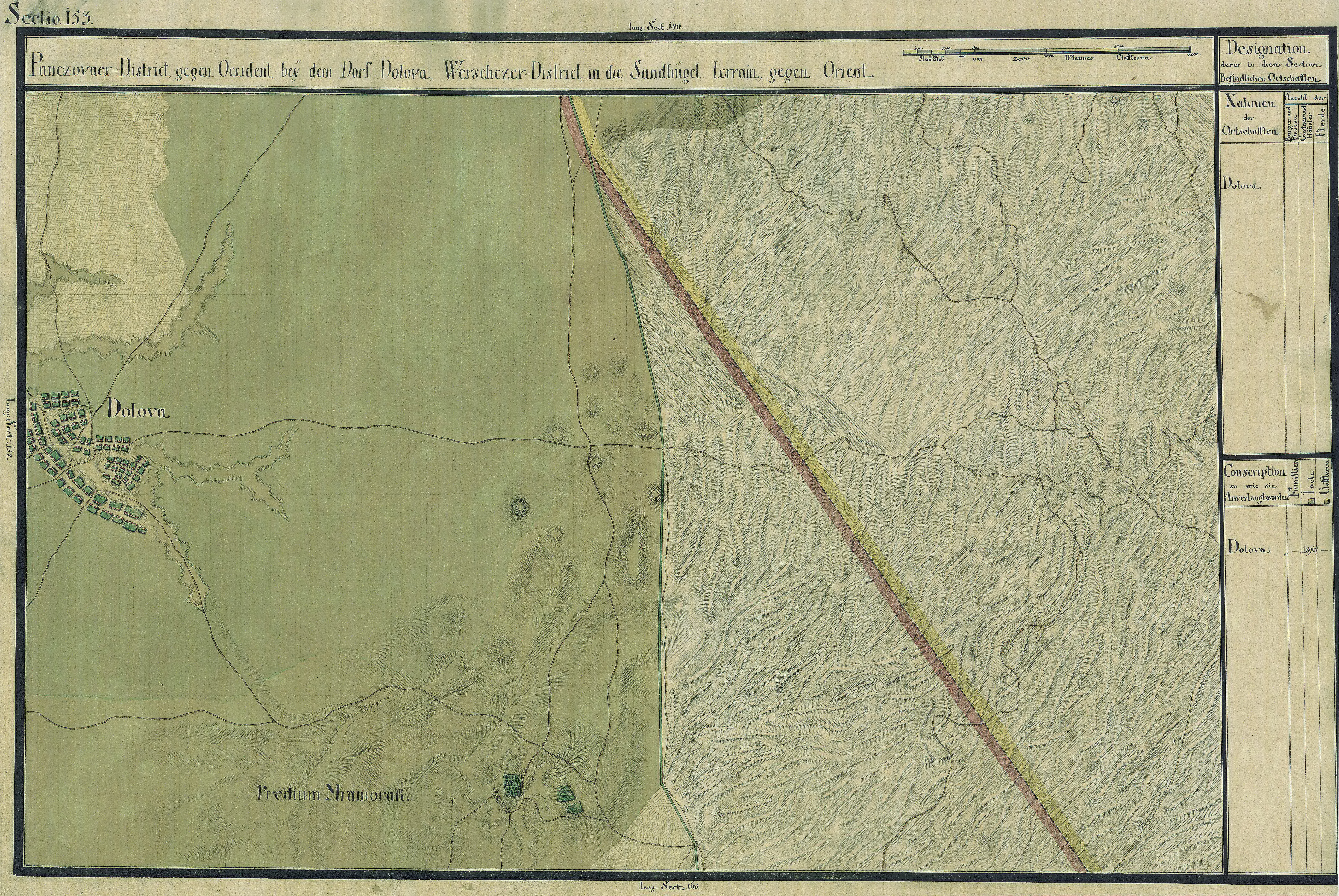 The Banat region in the cadastral maps: Josephinische Landesaufnahme, 1769-72. Josephinische Landaufnahme pg153